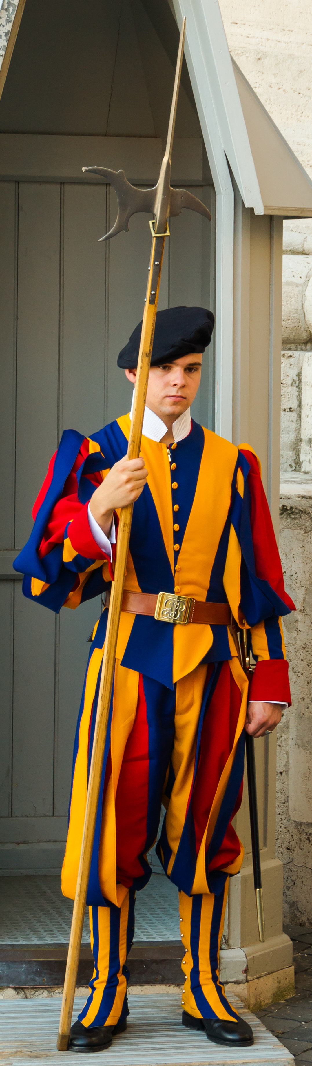 Swiss guard in Vatican City